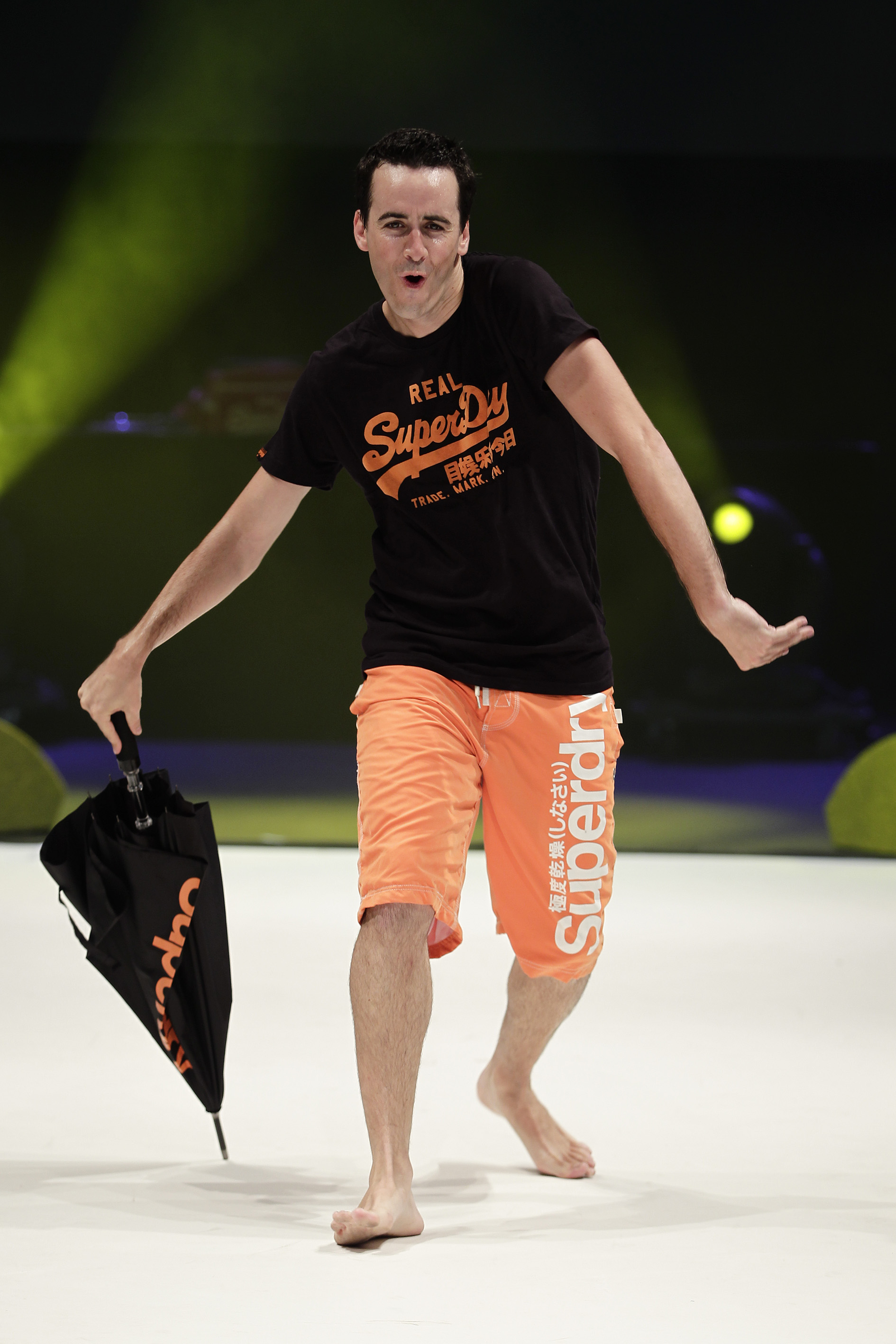 A man modelling a Superdry t-shirt, shorts and umbrella at a trade show.